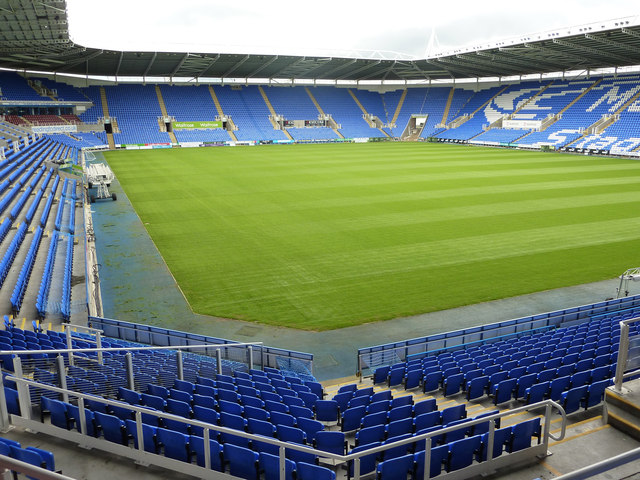 Impressive home of Reading Football Club in the close season, seen from the Premier Lounge of the Royal Berkshire Conference Centre. The pitch was recently re-turfed in preparation for the 2012-13 season the Premier League.